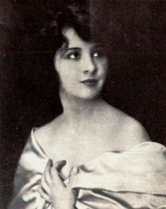 Actress Lucy Fox, on page 83 of the June 25, 1921 Exhibitors Herald.